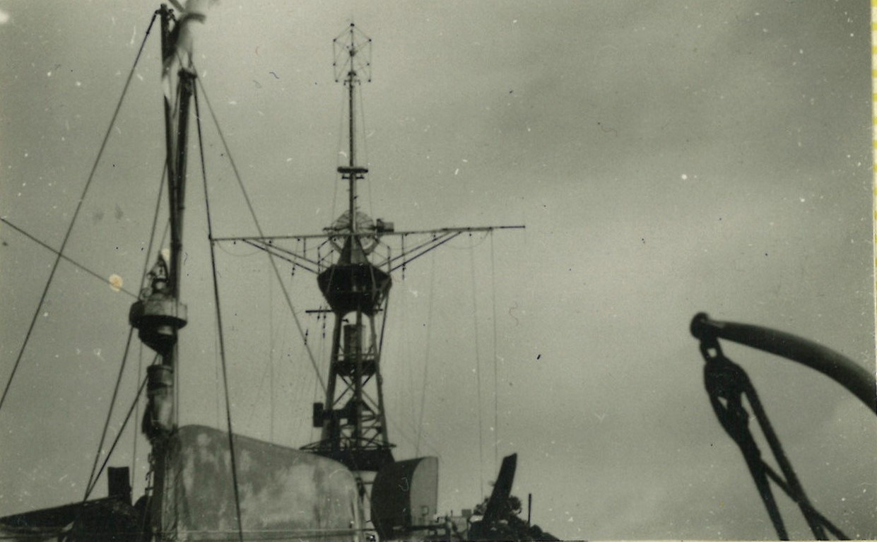 HMSC Copper Cliff, a Castle-class corvette, was used to test the Type 277 radar on escort vessels. Its Outfit AUJ parabolic antenna can be seen roughly centered in this image.